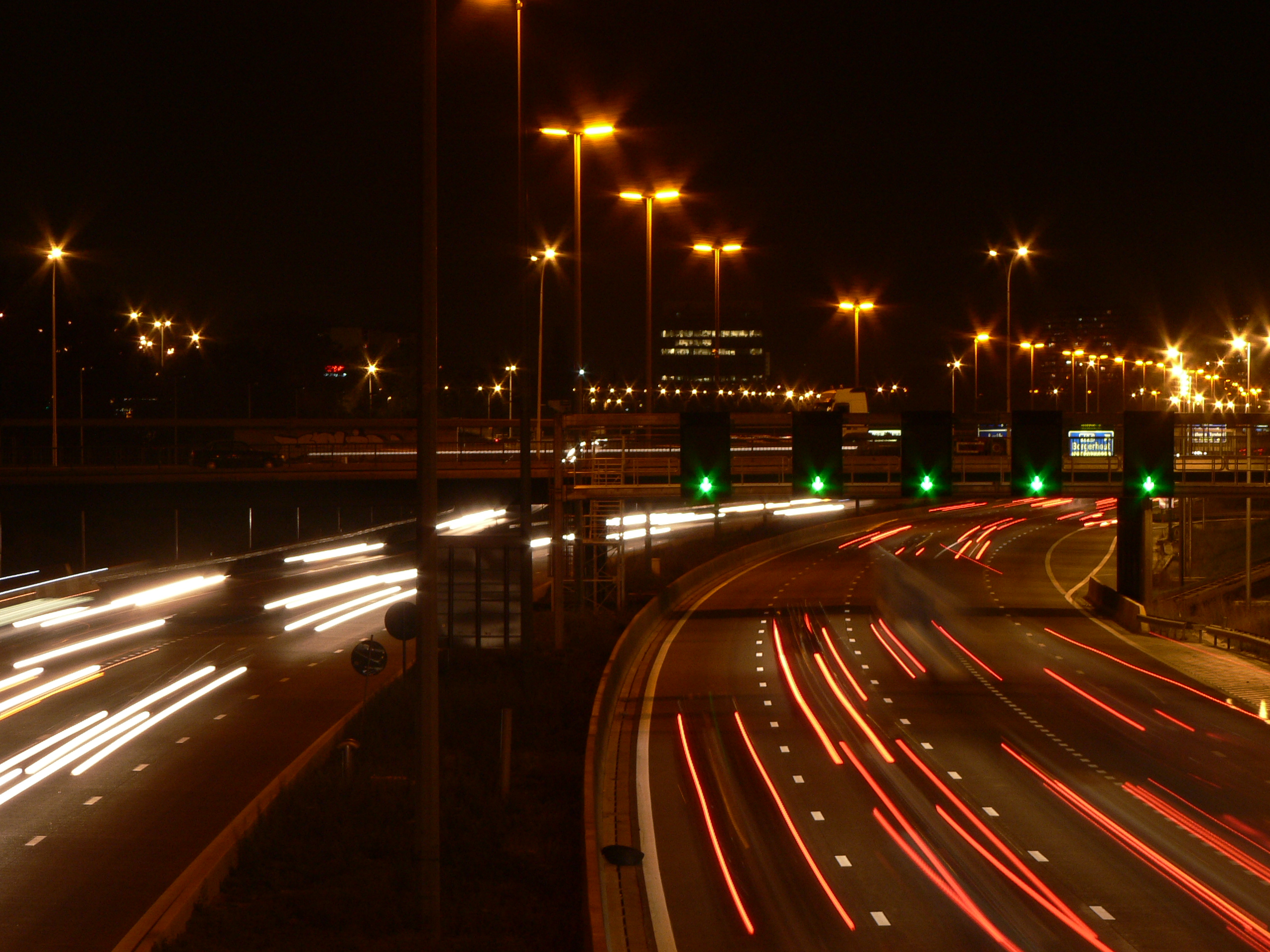 E17 motorway Antwerpen (Borsbeekbrug, direction Netherlands)